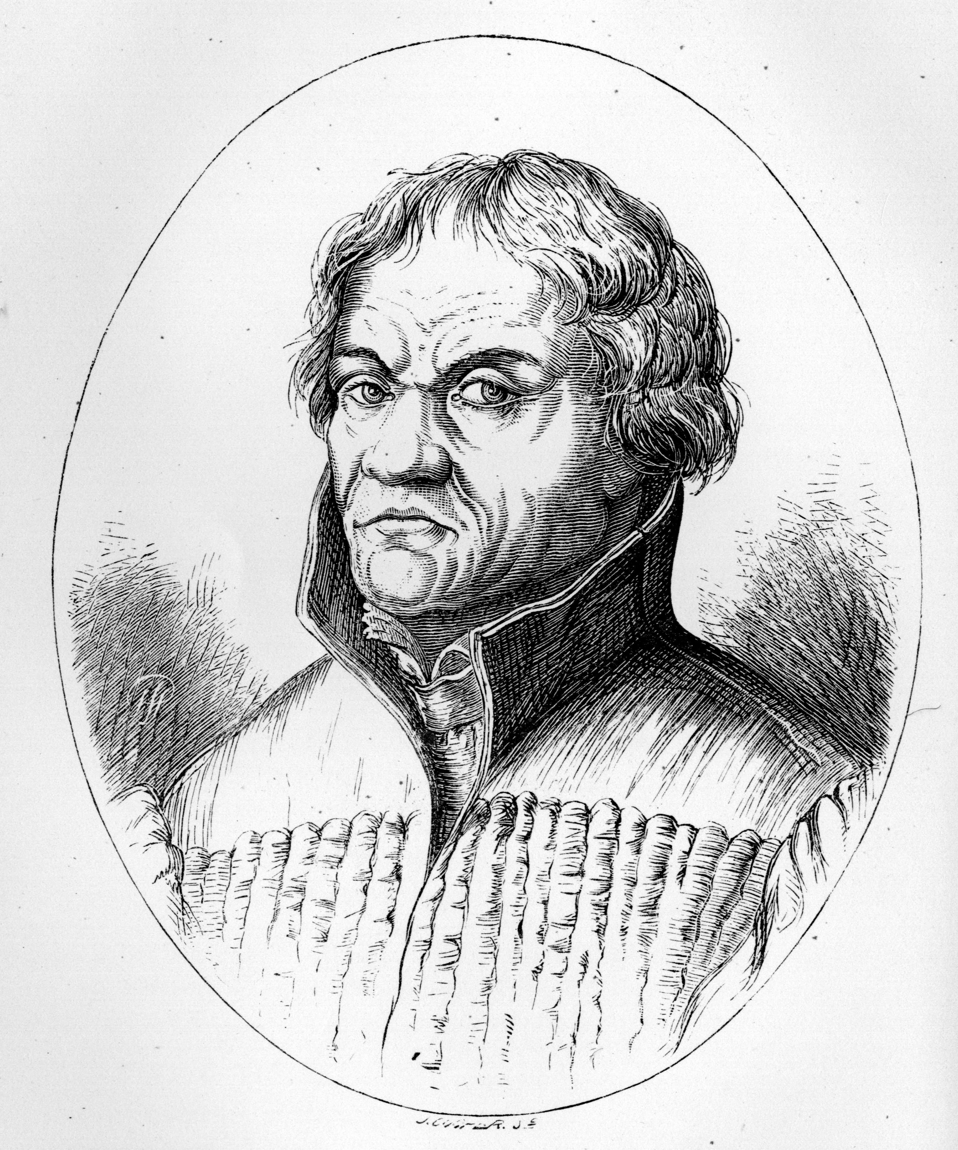 Portrait of Paul Eber.